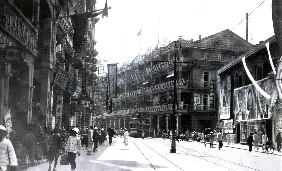 The World Cinema (right) and Wing On Company (centre) on 179, Des Voeux Road, Central, c1920s-30s中文（香港）: 二，三十年代．德輔道中179號．新世界影畫戲院, 前右是永安公司。